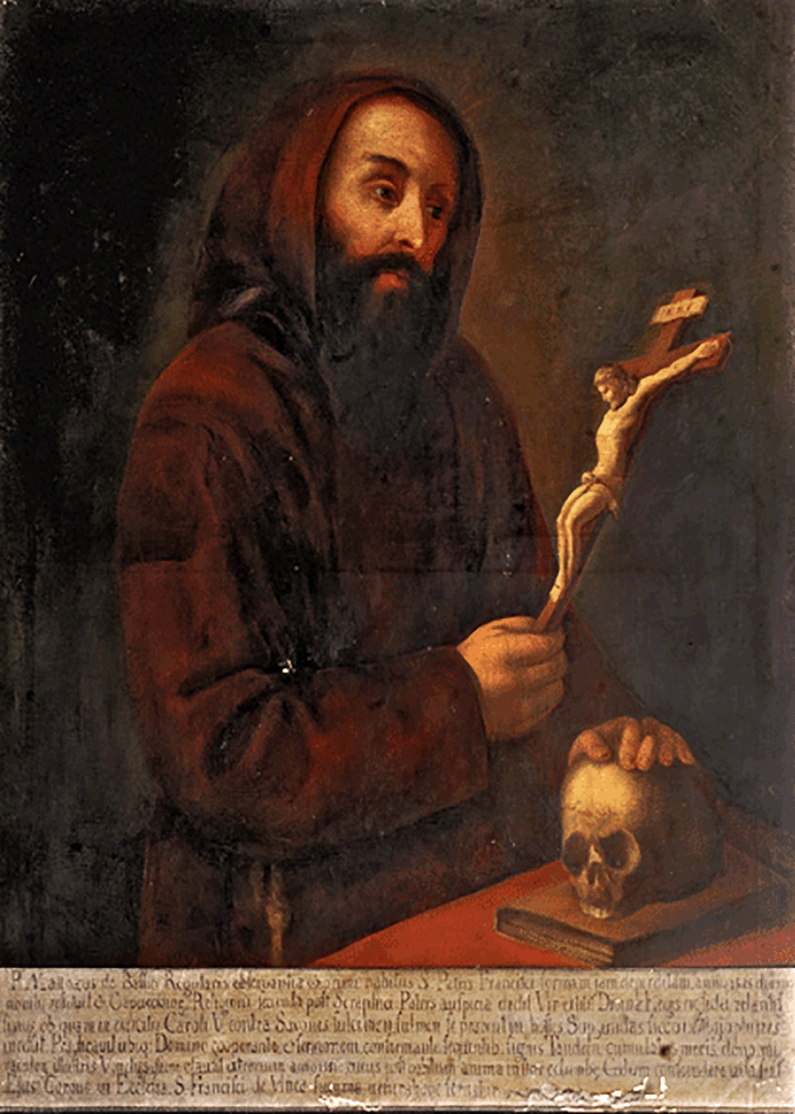 Matteo da Bascio, founder of the Cappucine order, anonymous painting, beginning of 16thc ent.